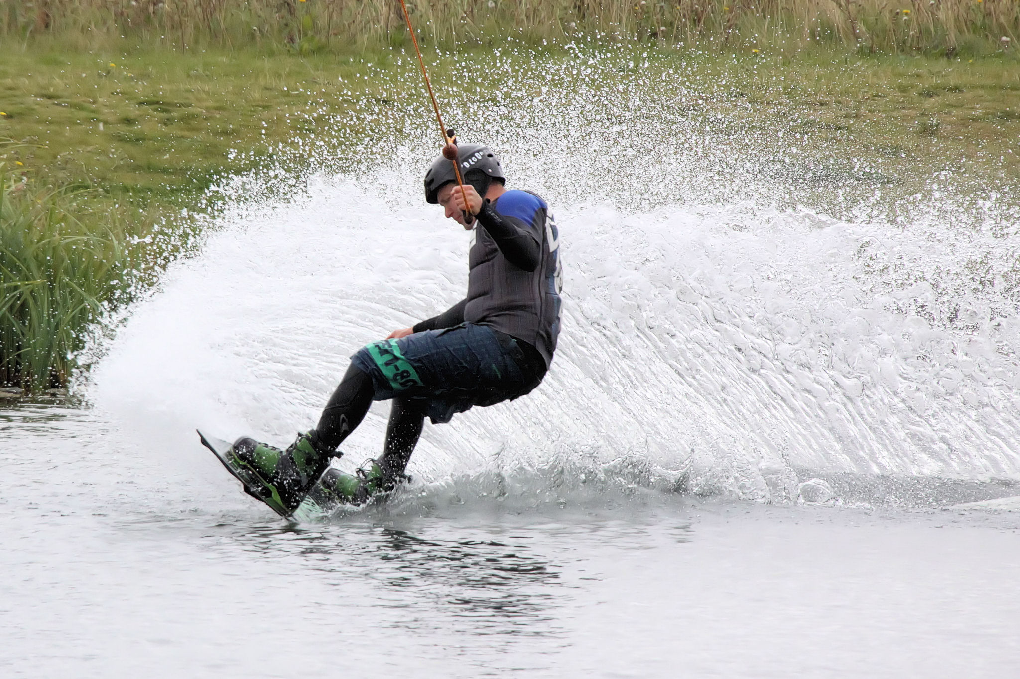 A new leisure centre has opened close to where my mum lives specialising in wakeboarding and waterskiing. Looks like fun if you are into watersports ;-)